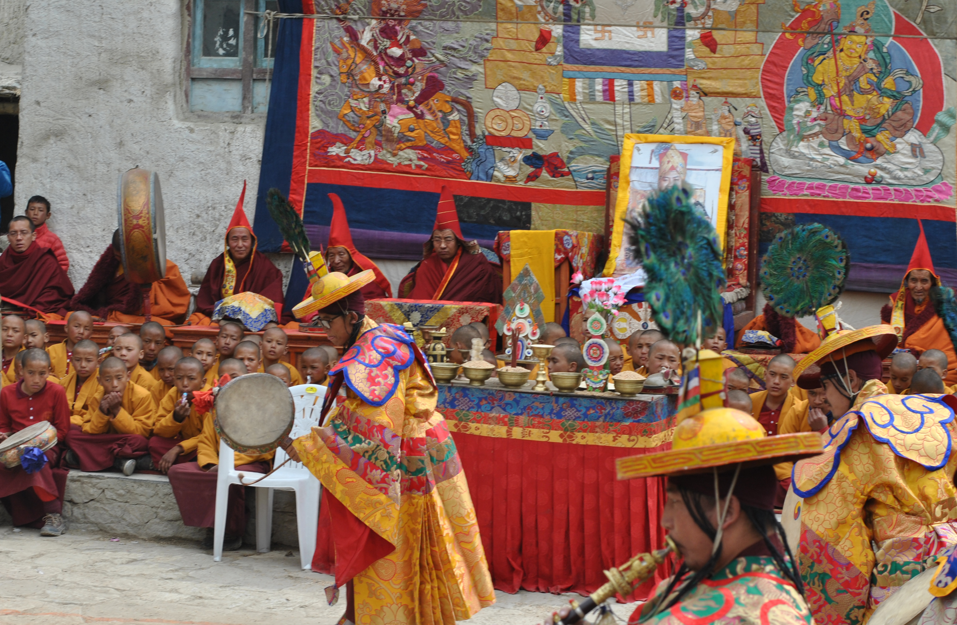 Tiji Festival Of Lomanthang